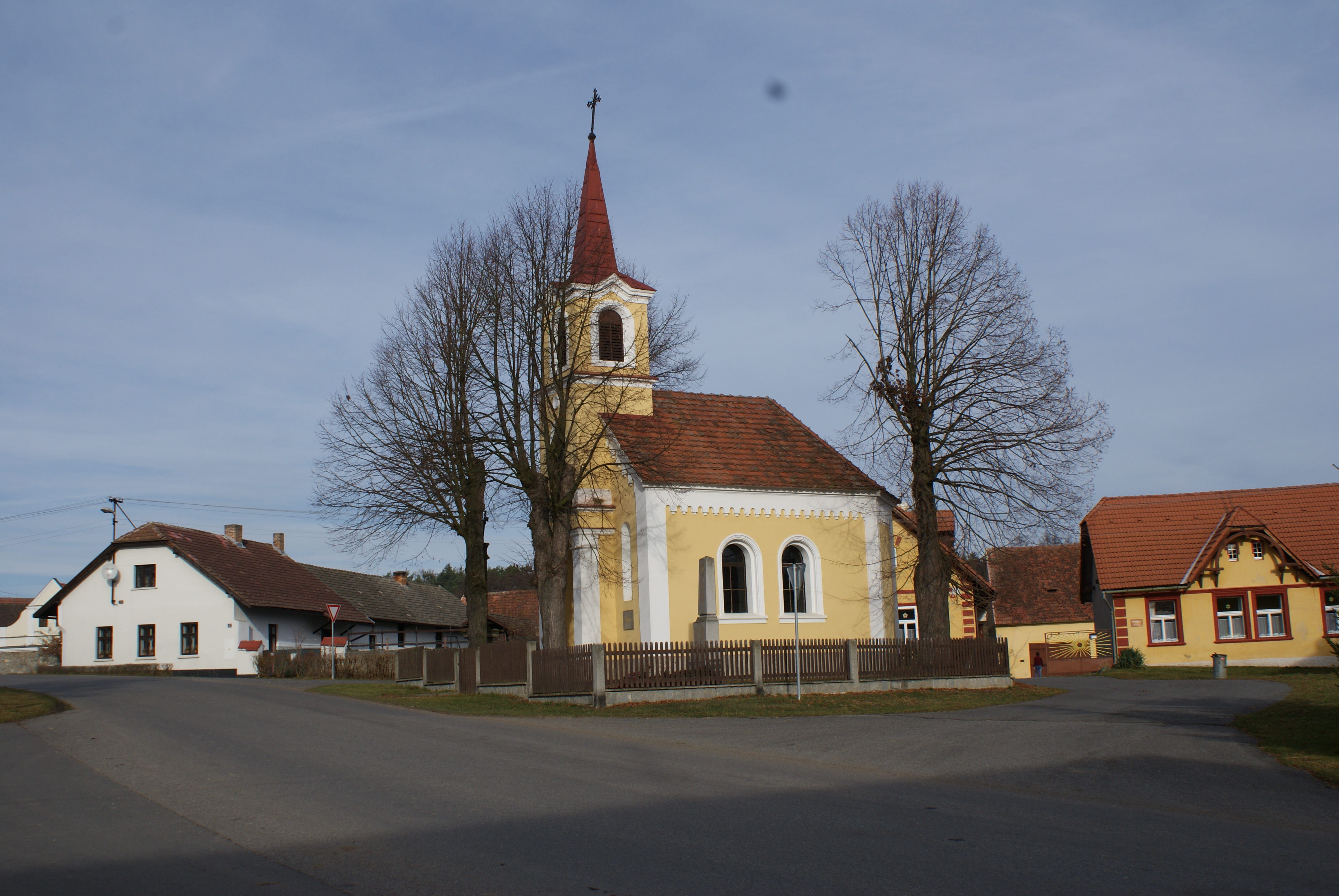 The Chapel of St Anne in Hajany, Strakonice District